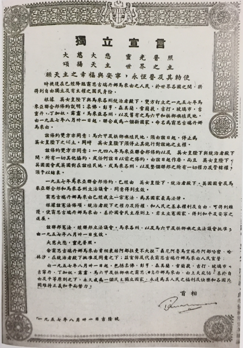 The Proclamation of Malaysia (in Chinese)